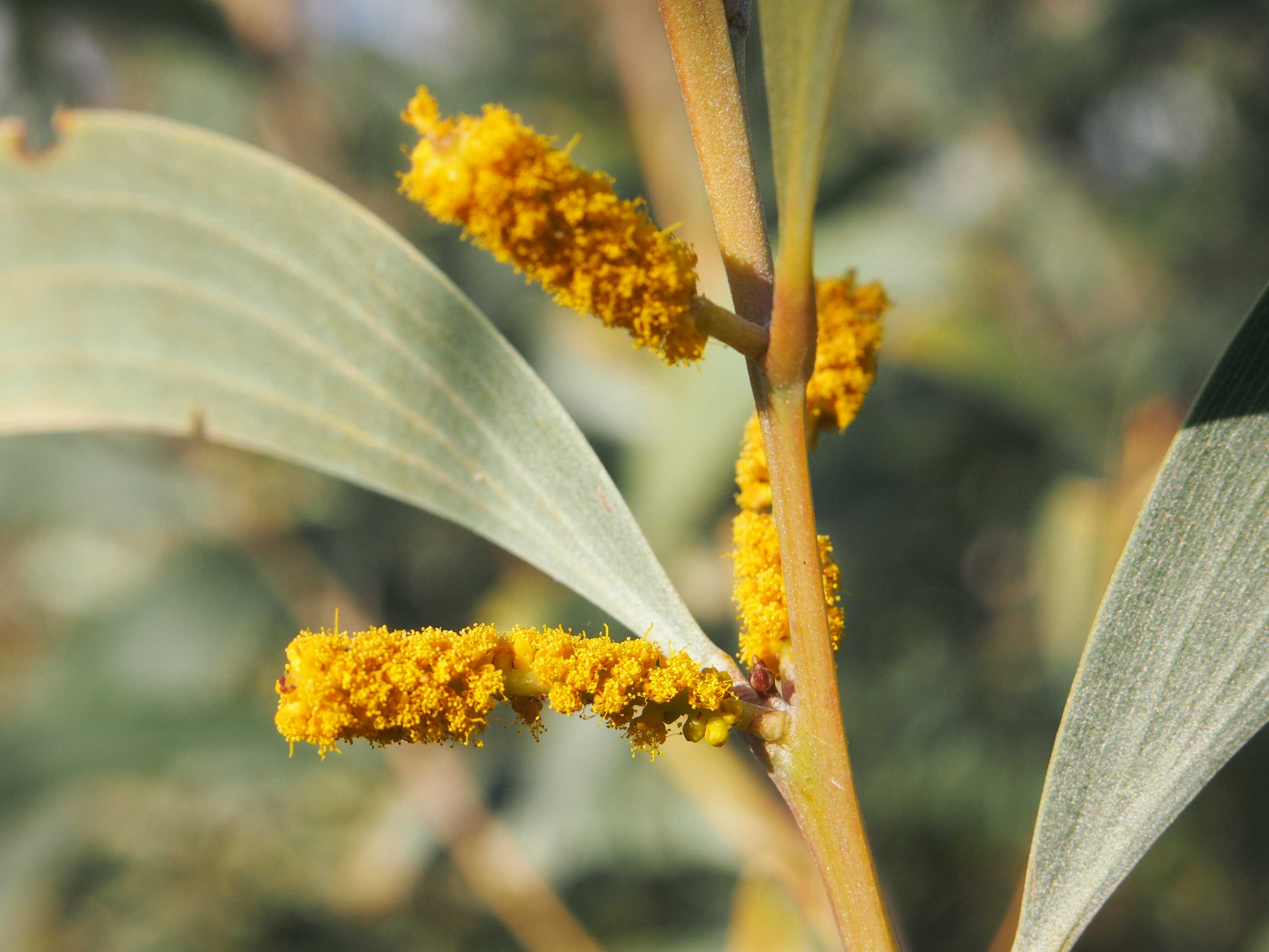 Acacia elacantha flowers